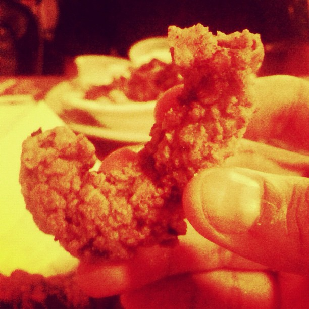 Finger steaks consist of 2–3” long by 1/2" wide strips of steak (usually sirloin), battered with a tempura-like batter, and deep-fried in oil.